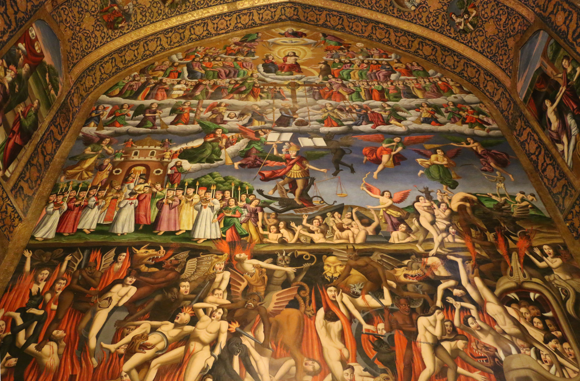 mural painting Vank Cathedral